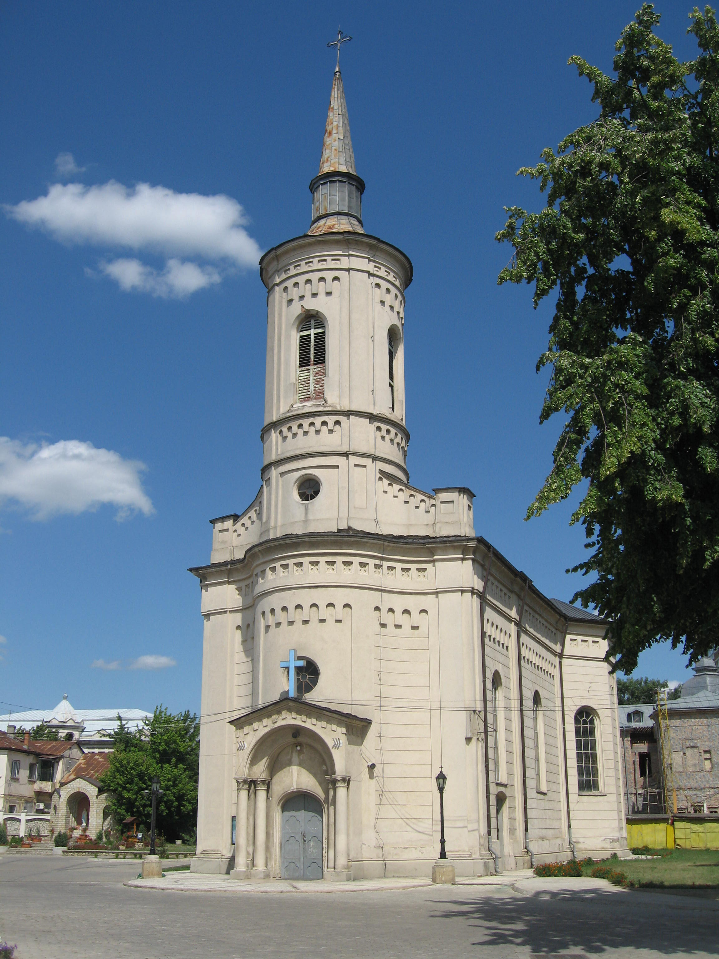 Catedrala Adormirea Maicii Domnului din Iaşi